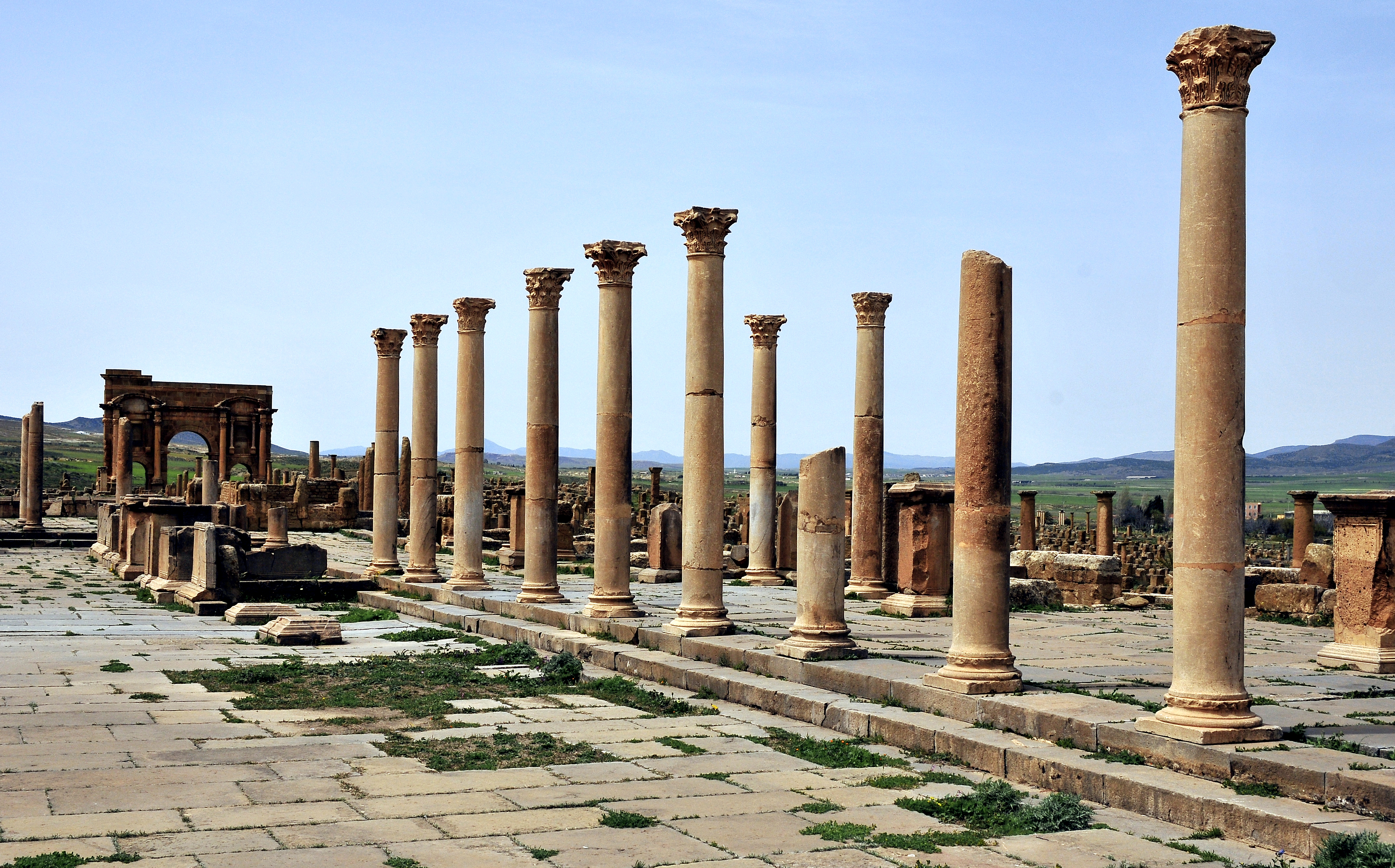 One of the colonnades of the forum. Timgad, Batna, Algeria